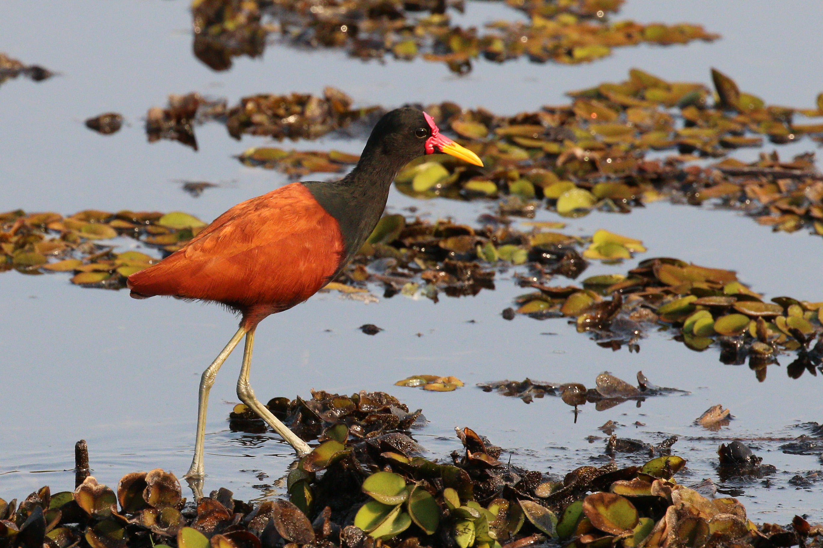 Wattled jacana (Jacana jacana), the Pantanal, Brazil